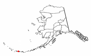 Adapted from Wikipedia's AK borough maps by Seth Ilys.